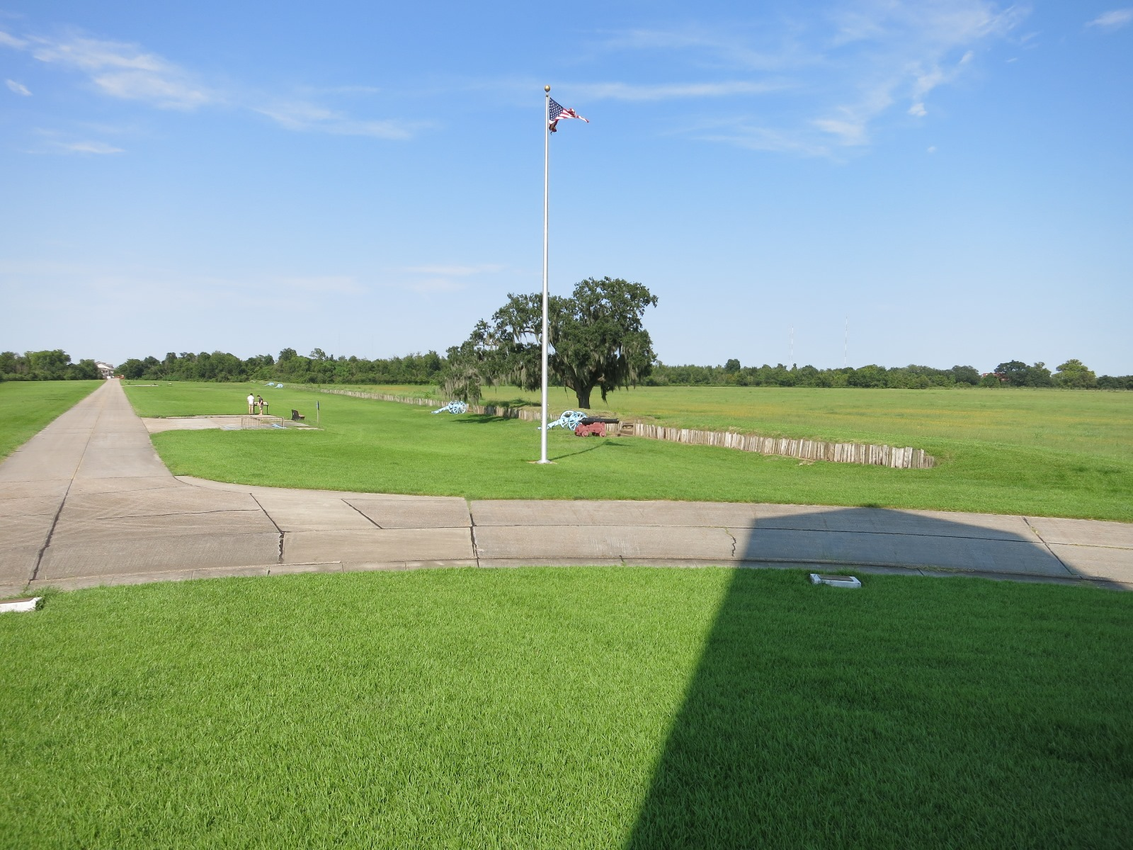 Photo shows the Chalmette Battlefield in New Orleans from the monument. The view is toward the northeast, parallel with the American defenses. The 3 closest cannons are replicas while the 2 farthest are authentic French pieces, one from 1793. The main British attack was aimed just beyond the two farthest cannons at Batteries 5 and 6.